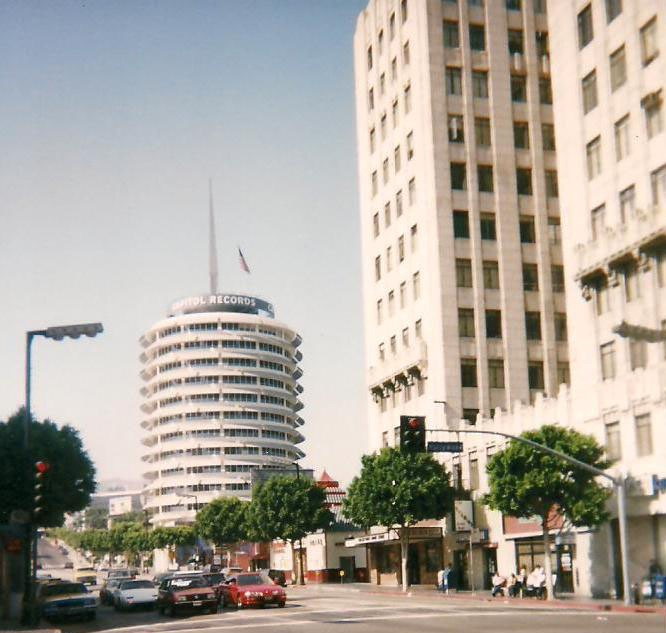 Capitol Records Building, seen from Hollywood & Vine, Hollywood, CA